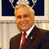 Cropped image of Moshe Katsav.